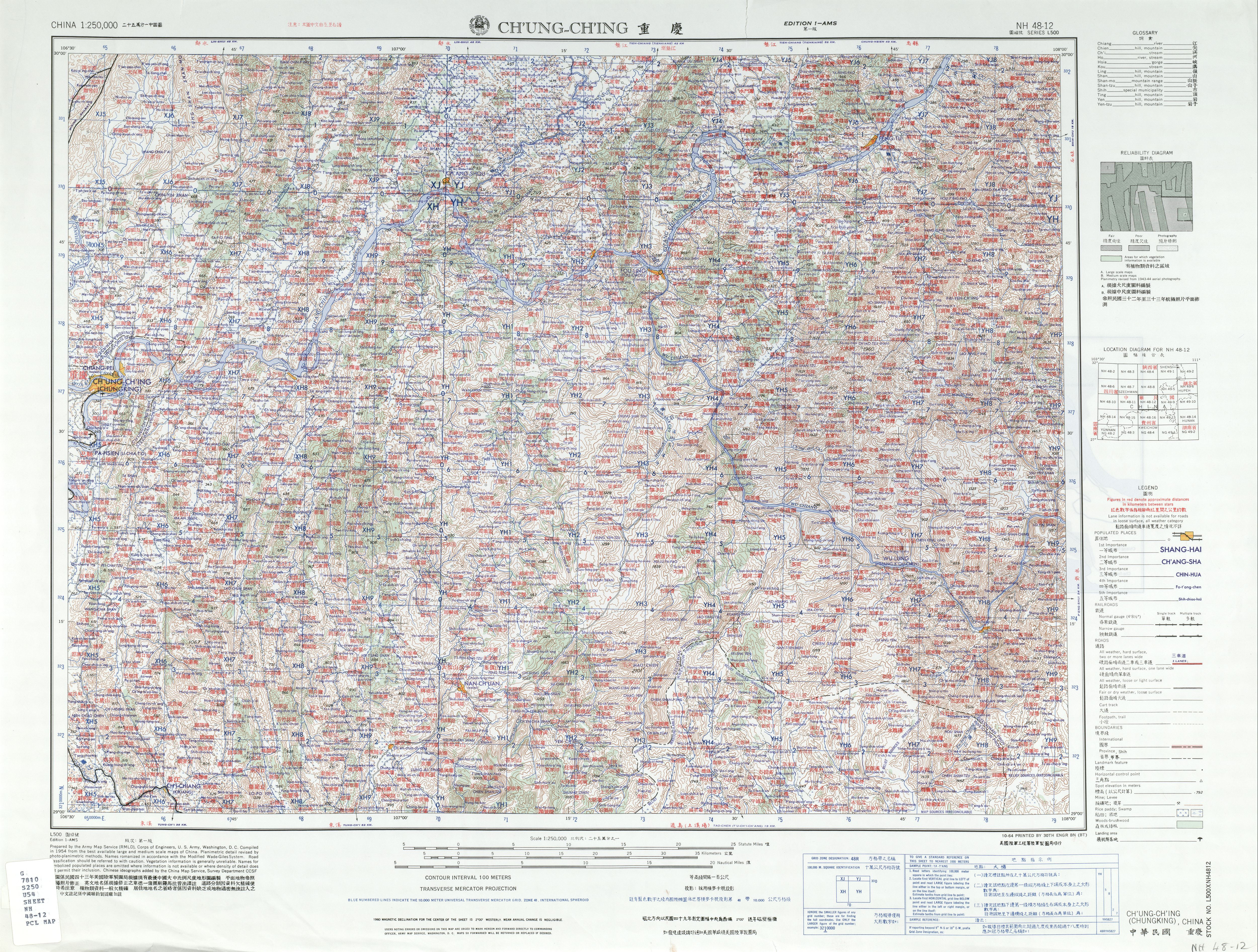 Map of the Chongqing (Ch’ung-ch’ing, Chungking) area, from the China AMS Topographic Maps series